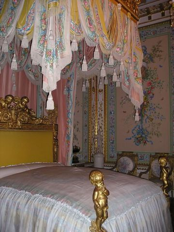 Pavlovsk Palace. Main bedroom.